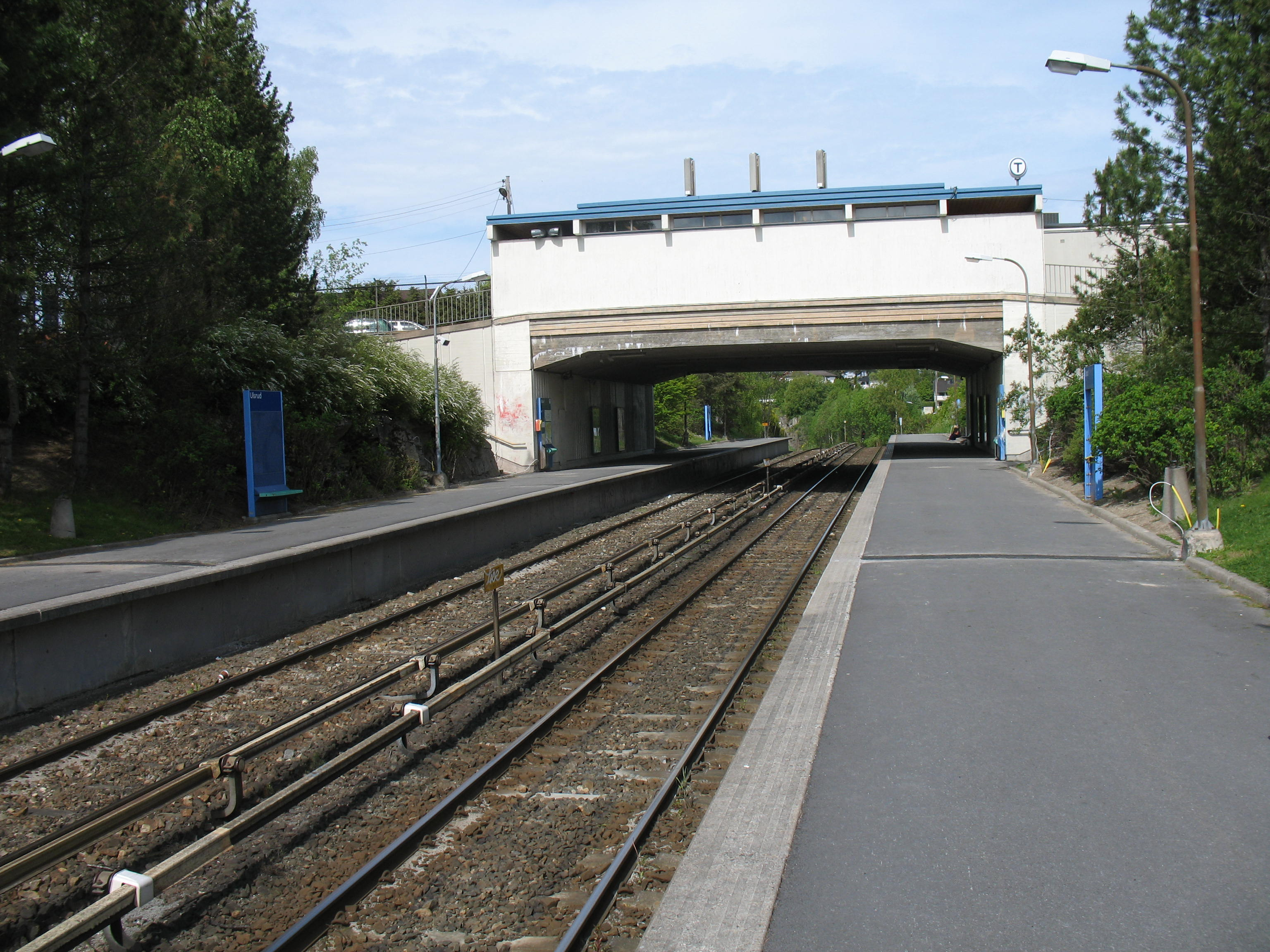 Ulsrud is a station on the Oslo T-bane.